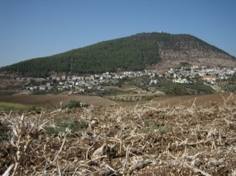 Mount Tabor, Israel. A view from north-east. / Brdo Tabor (Izrael). Pogled sa sjeveroistočne strane.